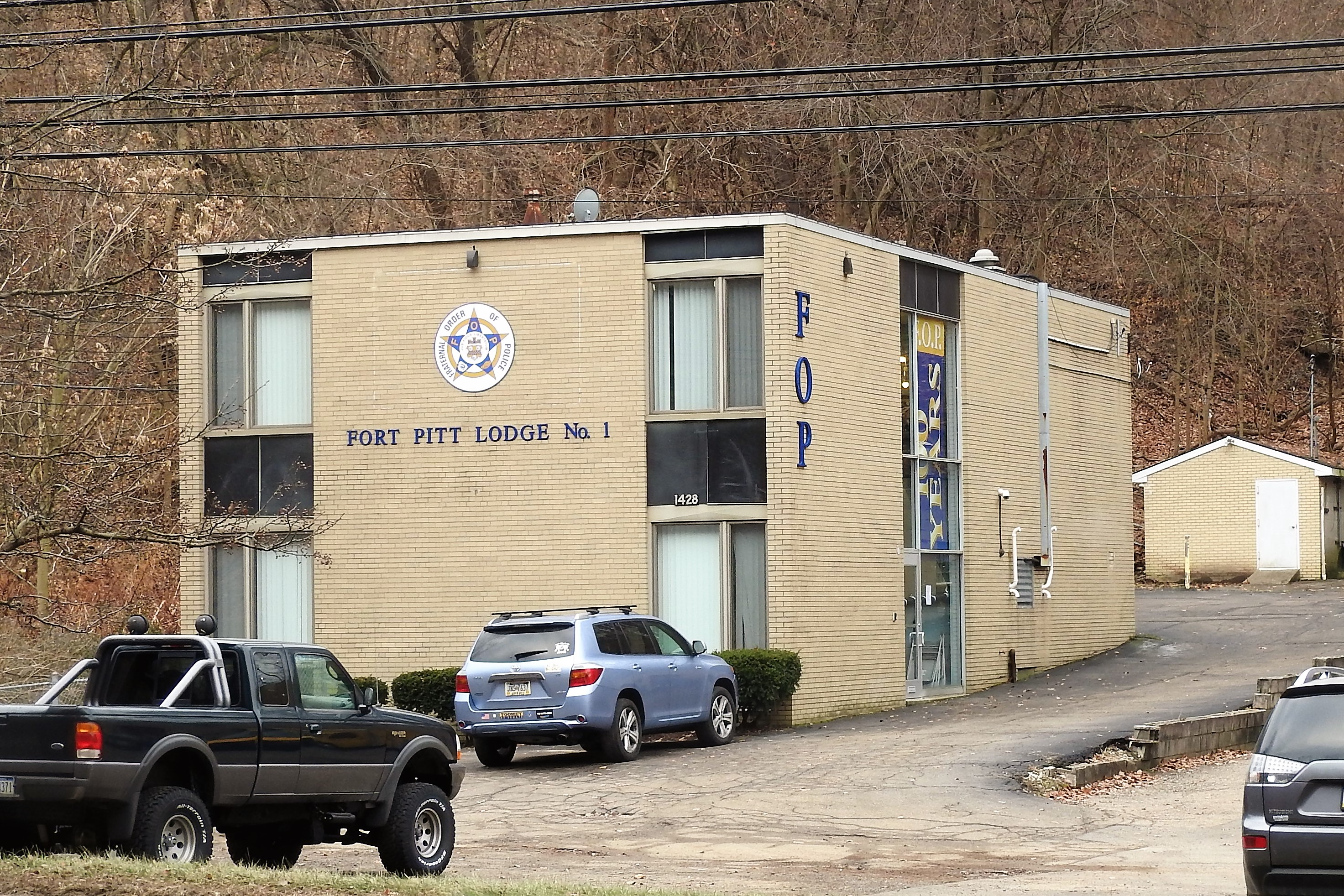 Looking west across the road at lodge house on a cloudy morning